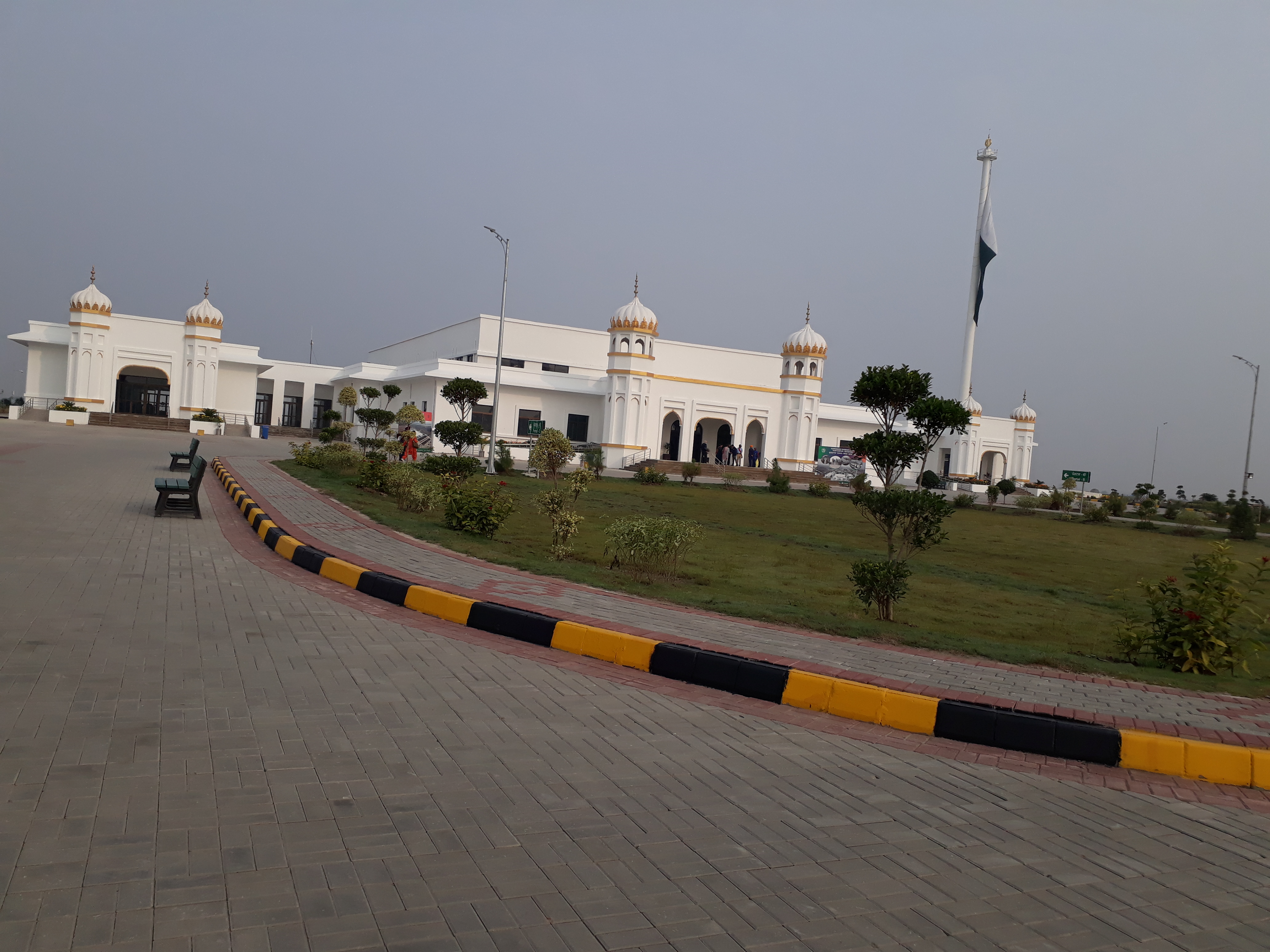 From zero line in corridor it is first building where immgration checks for pilgrims are done